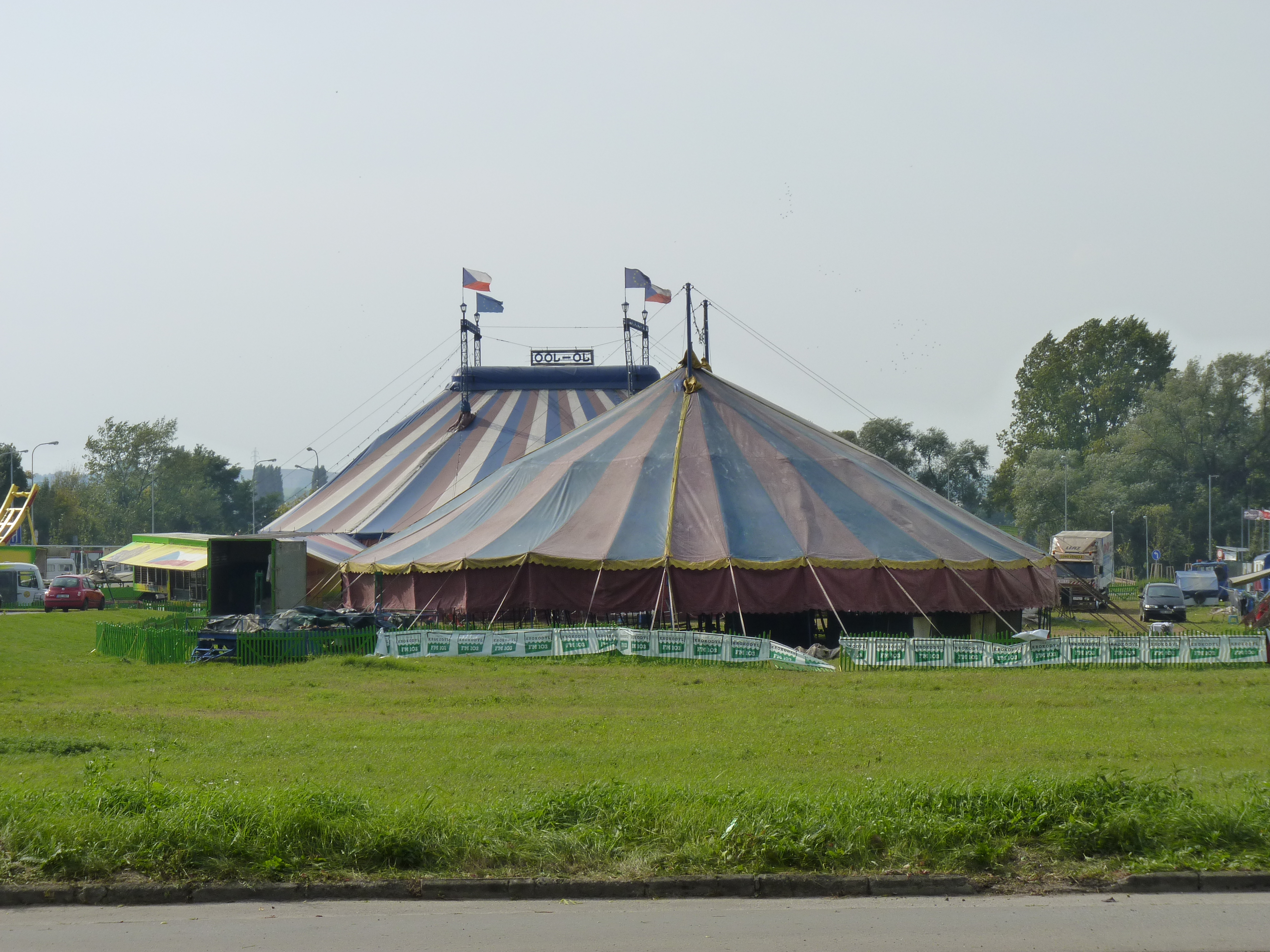 Circus Jo-Joo. Brno, South Moravian Region, Czech Republic